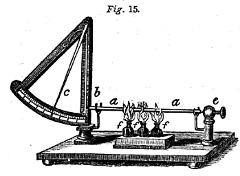 Early pyrometer measuring the coefficient of expansion of a metal bar, from a 19th century chemistry textbook The metal bar (a) expands when heated by the lamps (f) and presses against a lever (b), which moves a pointer (c) along a scale that serves as a measuring index. (e) is an immovable prop which holds the bar in place. A spring on (c) pushes against (b), causing the index to fall back once the bar cools.